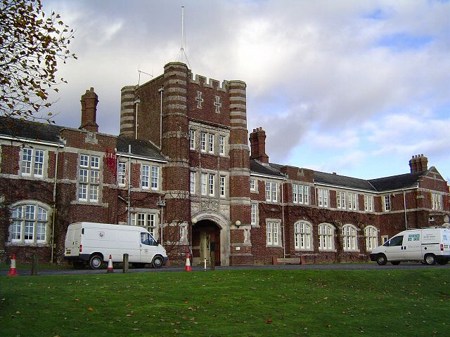 Seale Hayne college - Newton Abbot. Seale Hayne is a well-established agricultural college that is now part of Plymouth University. Its future on this site is now precarious. Seale-Hayne was founded as an educational charity under the will of Sir Charles Seale-Hayne. Originally it was a military hospital and was used to treat shell-shock victims during WW1.